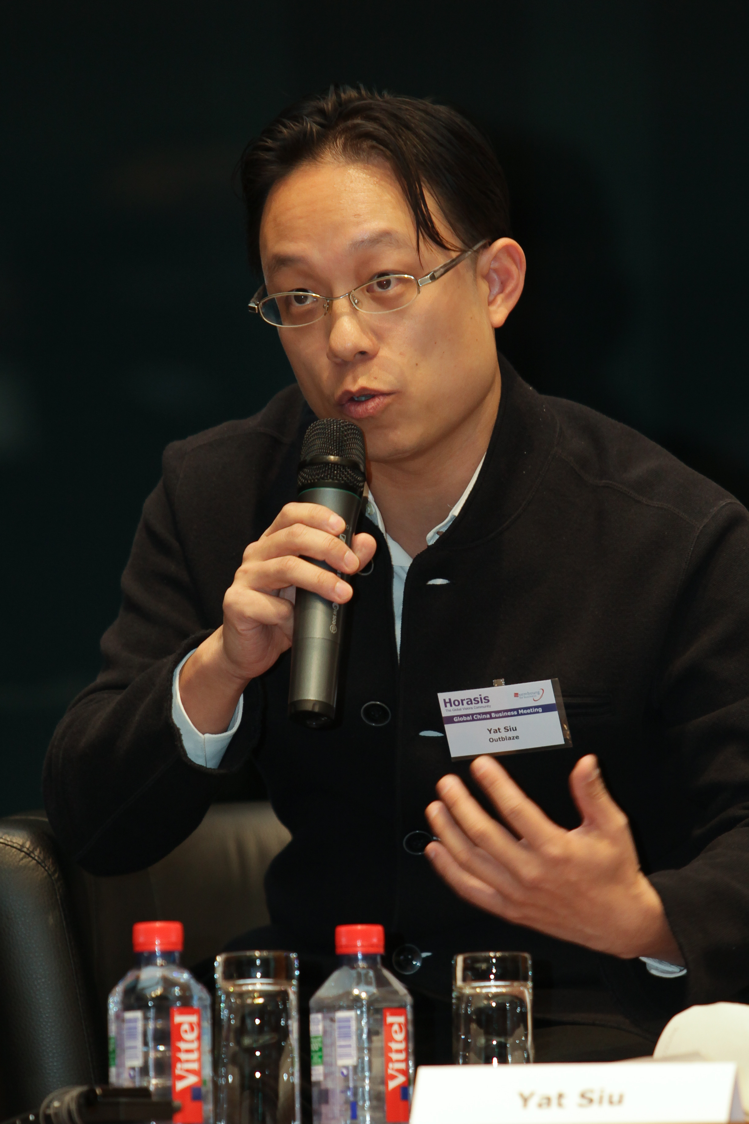 Yat Siu, Chief Executive Officer, Outblaze, Hong Kong